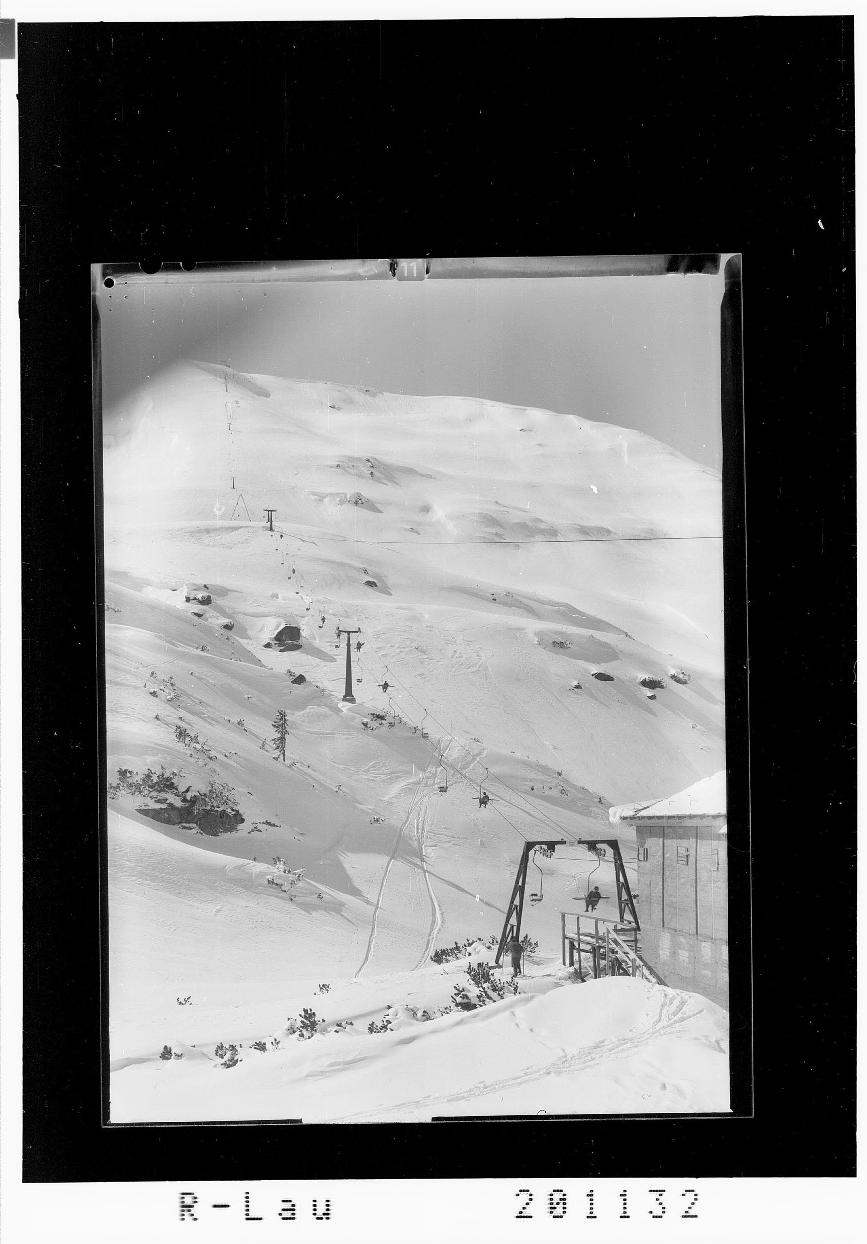 Lower station of the former Albonabahn II in Stuben, Vorarlberg, Austria. A part of the Arlberg, the village Stuben, the ski resort Albona, the Albonagrat and the Verwallgruppe are visible.